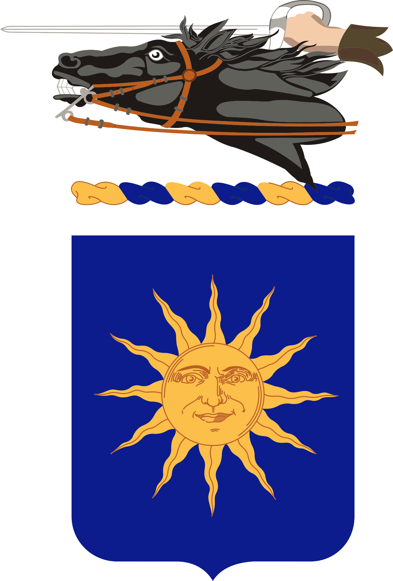 Coat Of Arms Blazon Shield Azure a sun in splendor with twelve wavy rays Or. Crest On a wreath of the colors Or and Azure a Black horse’s head charging erased at the neck bridled and a dexter cubit arm erased habited Olive Drab the hand grasping a sabre at the charge all Proper. Motto OUR STENGTH IS IN LOYALTY. Symbolism Shield The Regiment was organized in 1922 from personnel transferred from the 25th Field Artillery which in turn has been formed from personnel of the 4th Philippine Infantry and the 45th Infantry. The shield is blue for the old Infantry Regiments and also for the color of the sea, which surrounds the Islands. The sun is similar to one which appeared on a flag of the Philippine Insurrection. The twelve rays refer to the twelve principal tribes from which the soldiers of the Regiment came, i.e., Ilocanos, Cagayanes, Pangasinans, Zambals, Pampangos, Igorots, Tagalogs, Bicols, Ilongots, Samars, Cebuanos, and Moros. Crest The crest signifies the dashing spirit of the Cavalry service. Background The coat of arms was approved on 20 August 1924. It was rescinded on 2 February 1959.